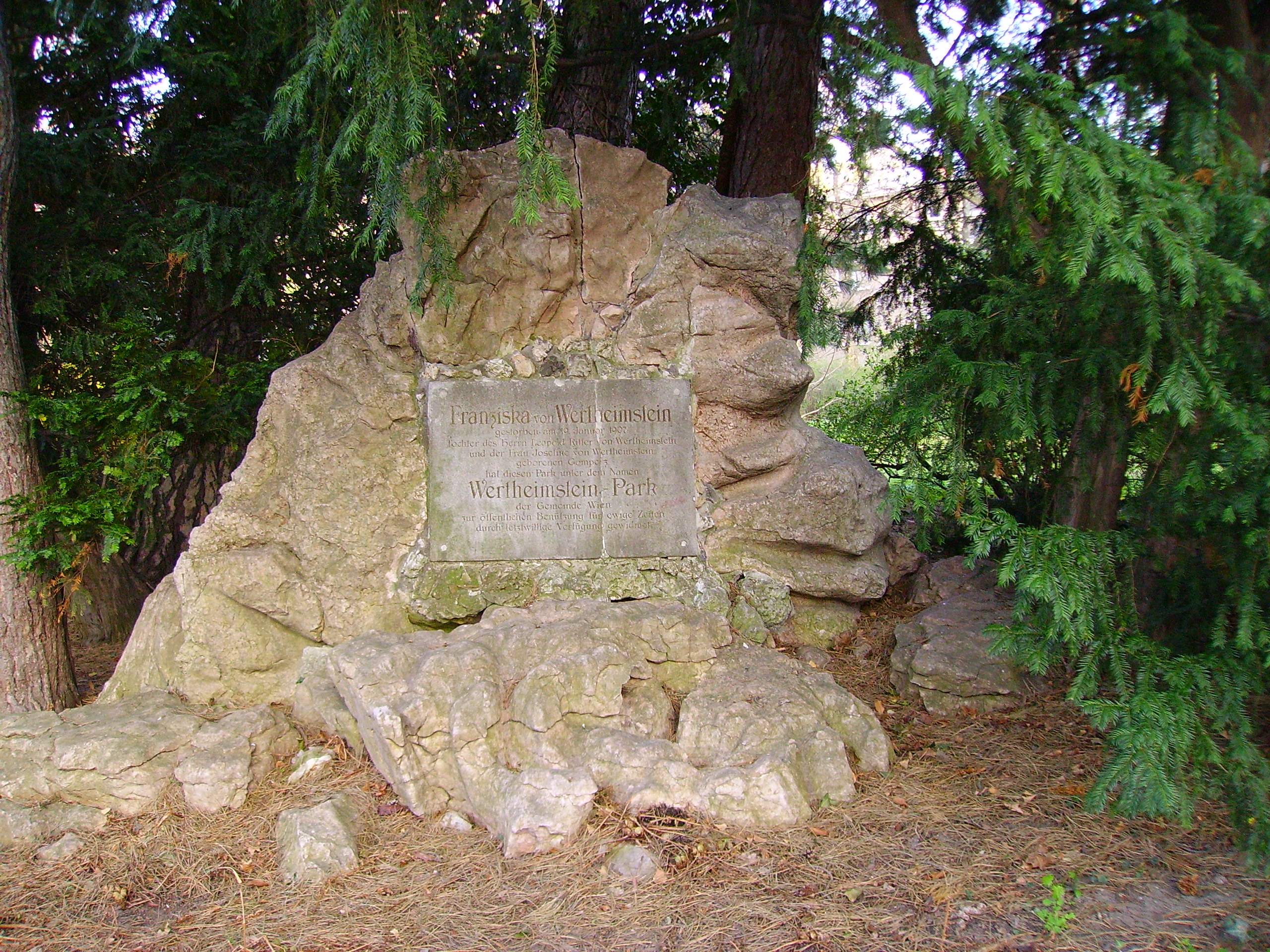 Monument for Franziska von Wertheimstein in the Wertheimstein-park, Vienna 19. district